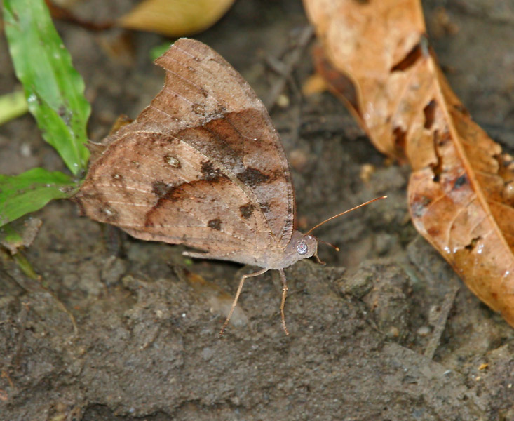 Dark Evening Brown Melanitis phedima at Jayanti in Buxa Tiger Reserve in Jalpaiguri district of West Bengal, India.